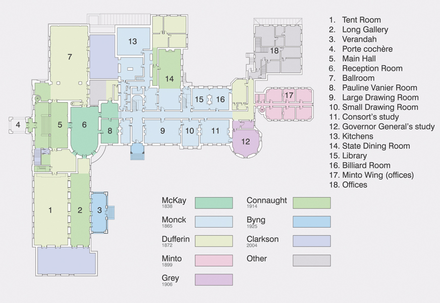 Self-created